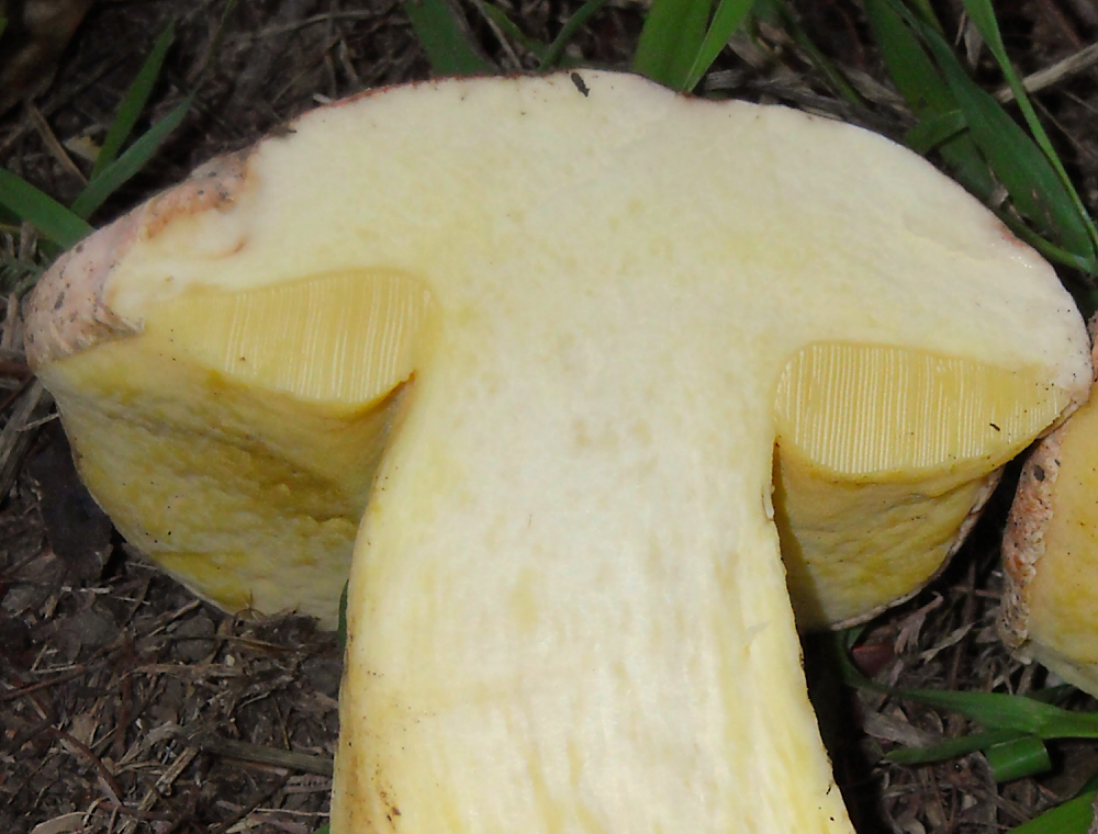 Boletus regius sensu Thiers Location: China Camp State Park, Marin Co., California, USA Observation Notes: Thanks Dimitar, for commenting on these Mushrooms, I am drying the boletes, in one spot of the park, these pops,It’s a BIG park, I have collected them going back 9 years, … I put them in my Food Dehydrator, then in a glass jar., I have NOT eaten them..ken.. For more information about this, see the observation page at Mushroom Observer.